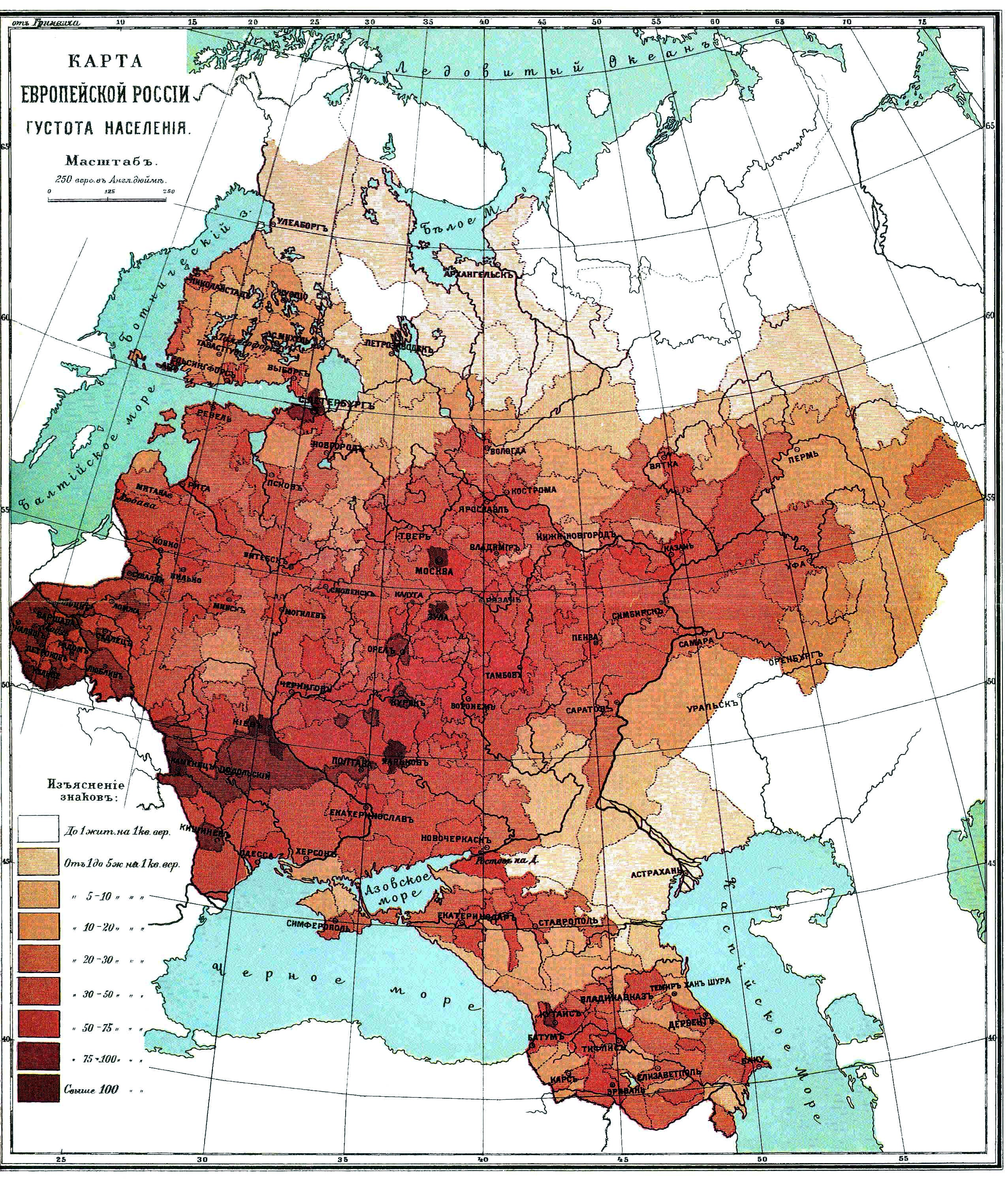 Population density of Russian Empire (European side). The end of XIX century.